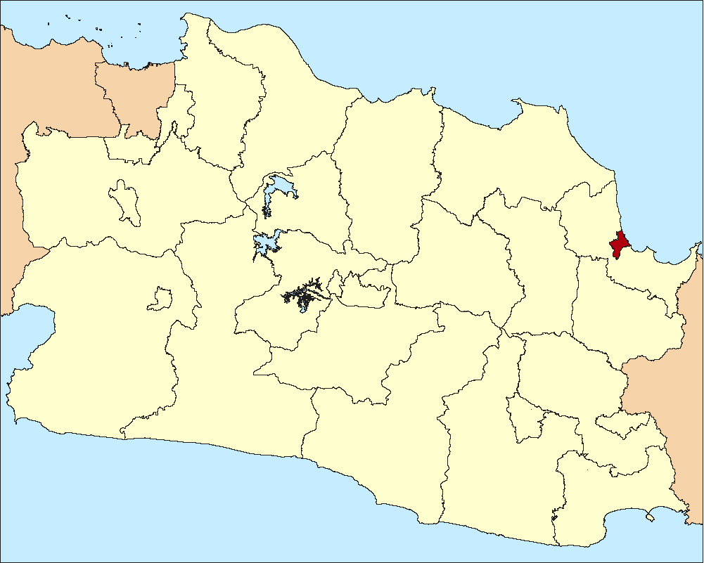 Location of Cirebon city, West Java province, Indonesia